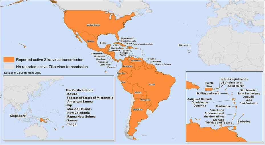 All countries and territories with active Zika virus transmission